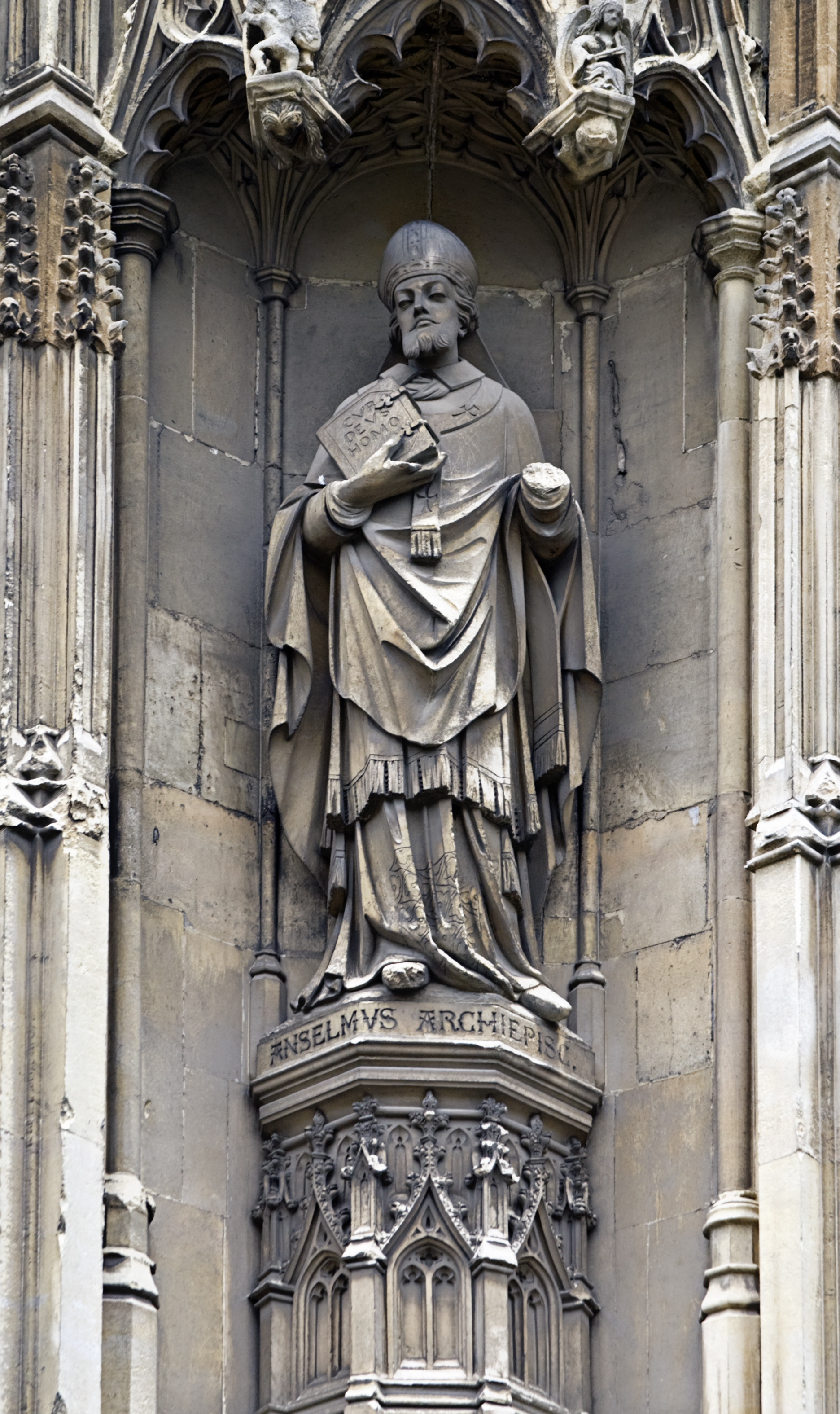 Statue of Anselm, Archbishop of Canterbury, from the exterior of Canterbury Cathedral